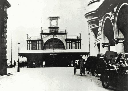 Source= MMIS image taken of a famous Hong Kong landmark in 1912 by unknown author, and now out of copyright per Hong Kong Copyright Ordinanceen:Category:Star Ferry Category:Piers in Hong Kong Category:Central, Hong Kong